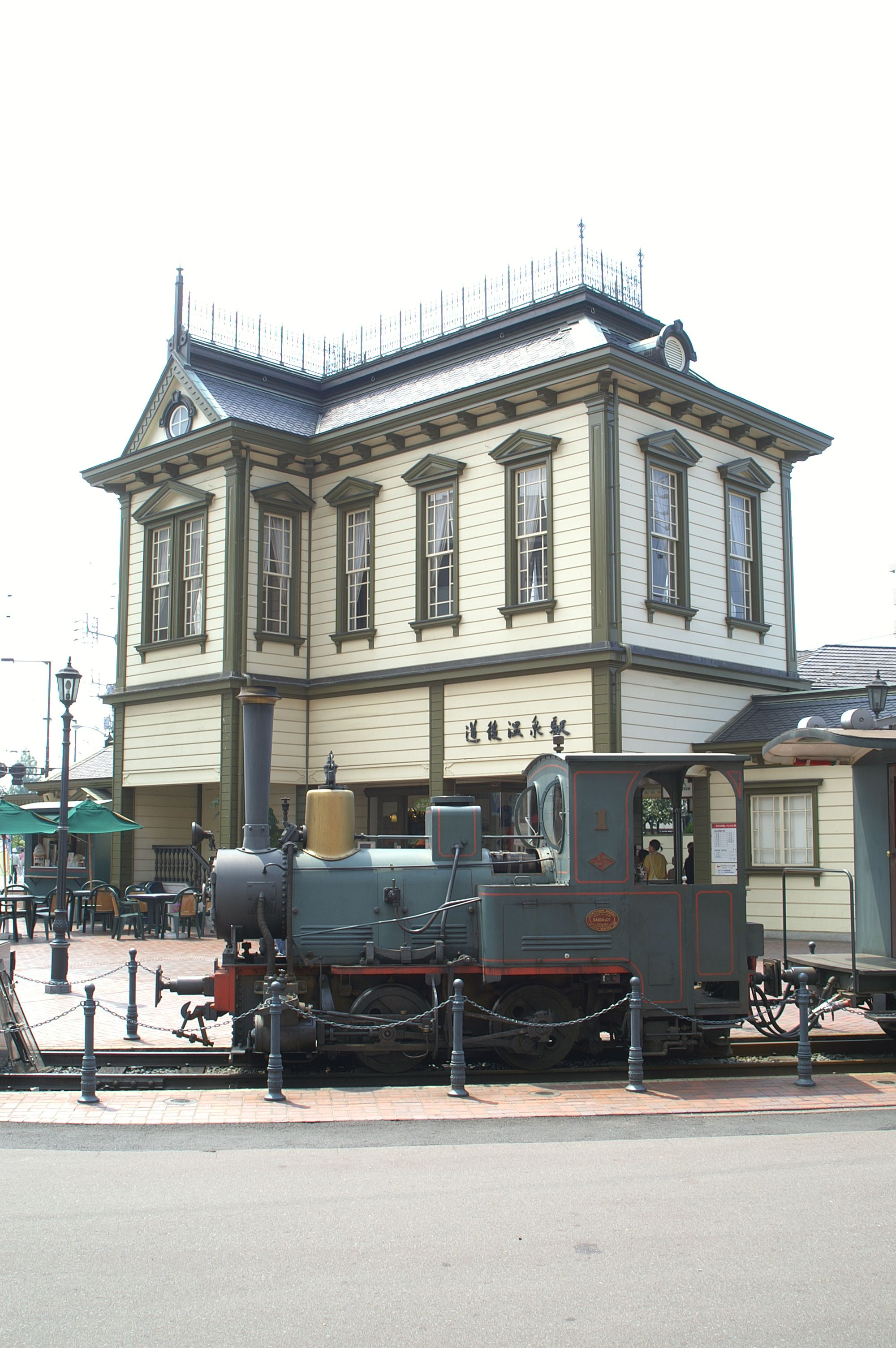 Botchan Train & Dogo Onsen Station (2006/08/23 Dogo Onsen, Matsuyama, Ehime, JAPAN)